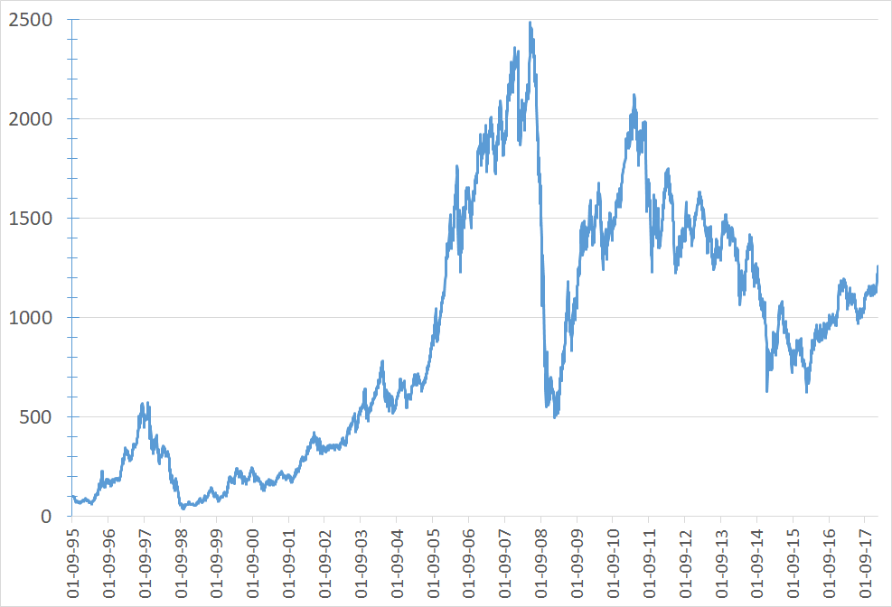 RTS Index from September 1995 to January 2018. Data source: Stooq.